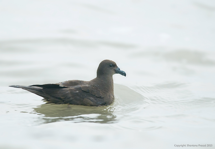 first Record from east coast India